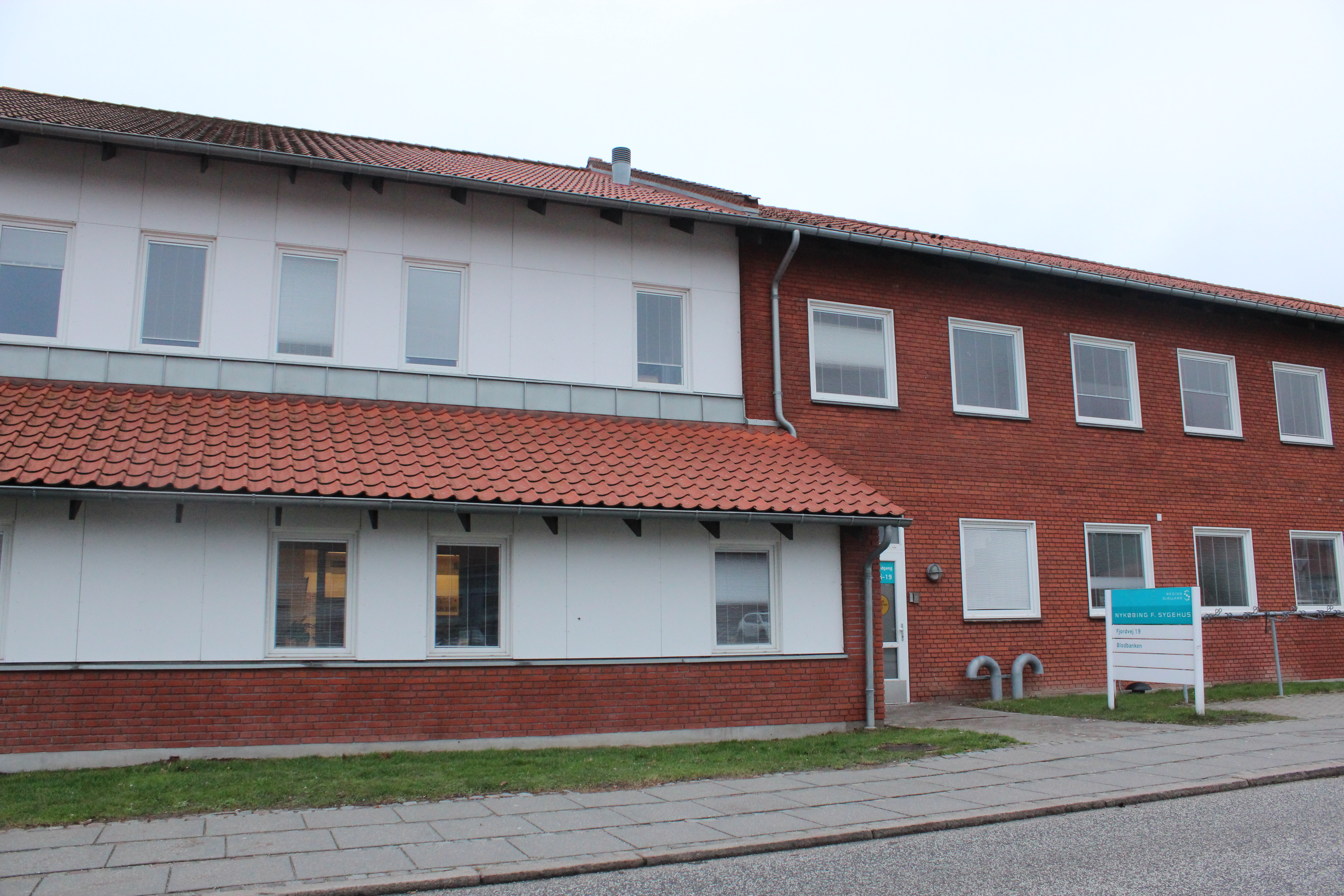 Hospital in Nykøbing Falster